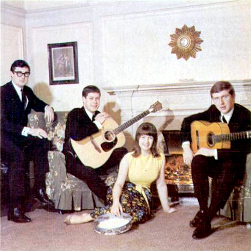 Trade ad for The Seekers' single "A World Of Our Own".To better adapt it to his respective Wikipedia article, the ad was cropped and cleaned in a graphics editing program. The original can be viewed at the source below.